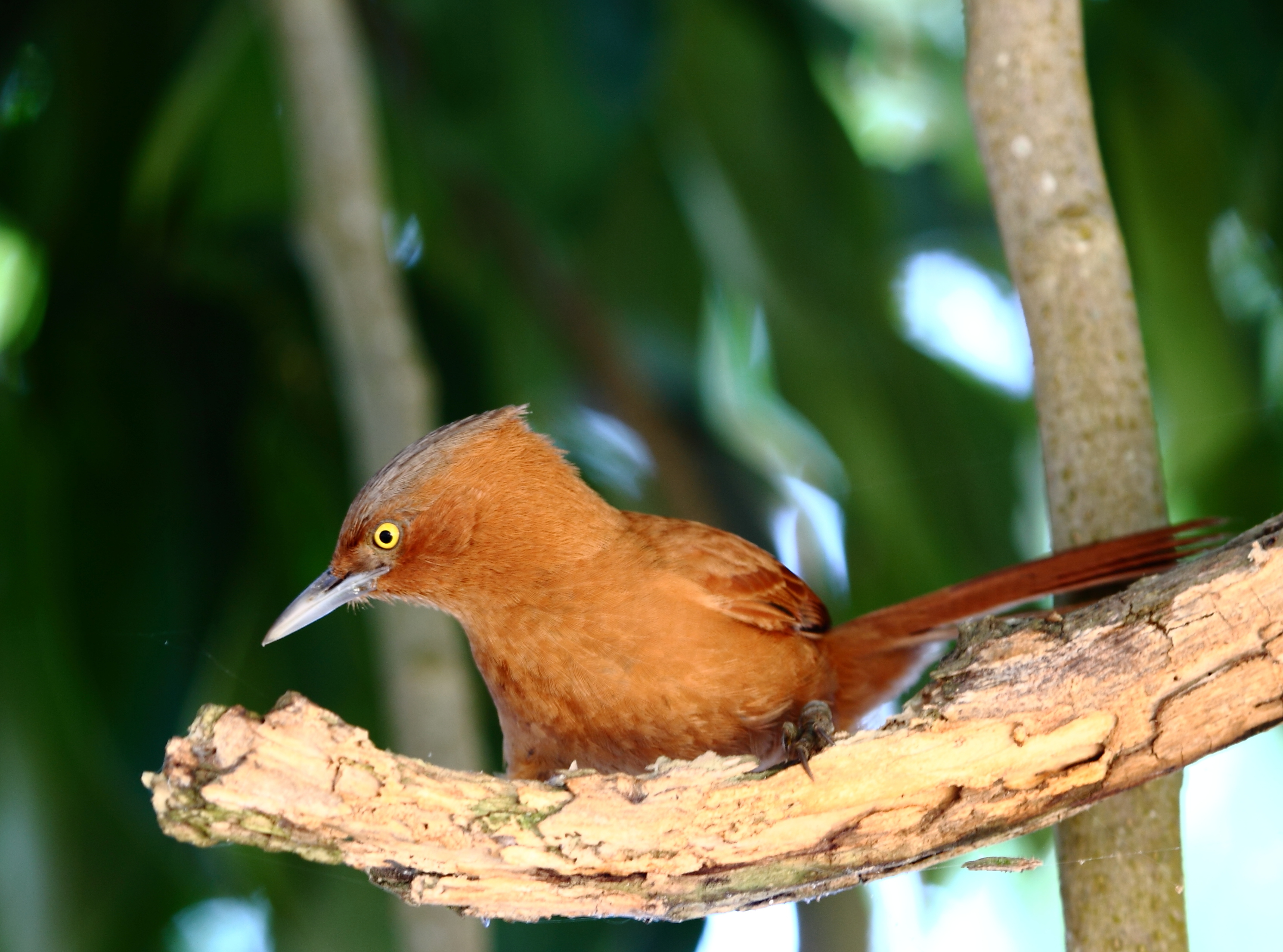 Grey-crested cacholote at Porto Joffre - MT -Brazil